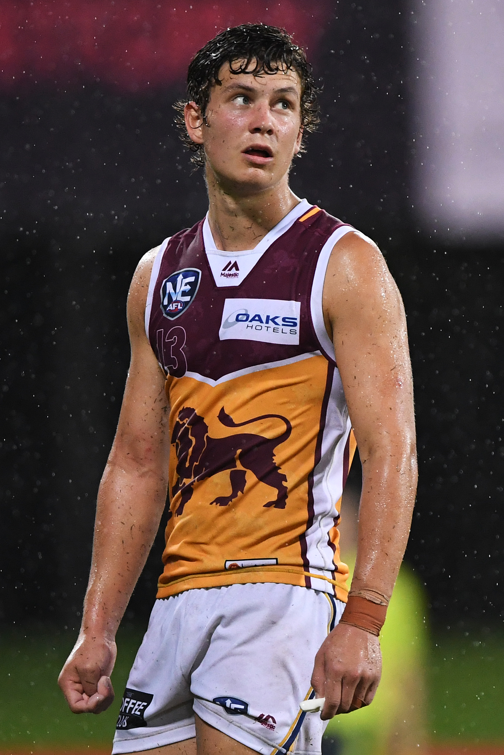 Tom Berry of the Brisbane Lions during the NEAFL round one match between NT Thunder and Brisbane Lions at TIO Stadium on 6 April 2019 in Darwin, Australia.